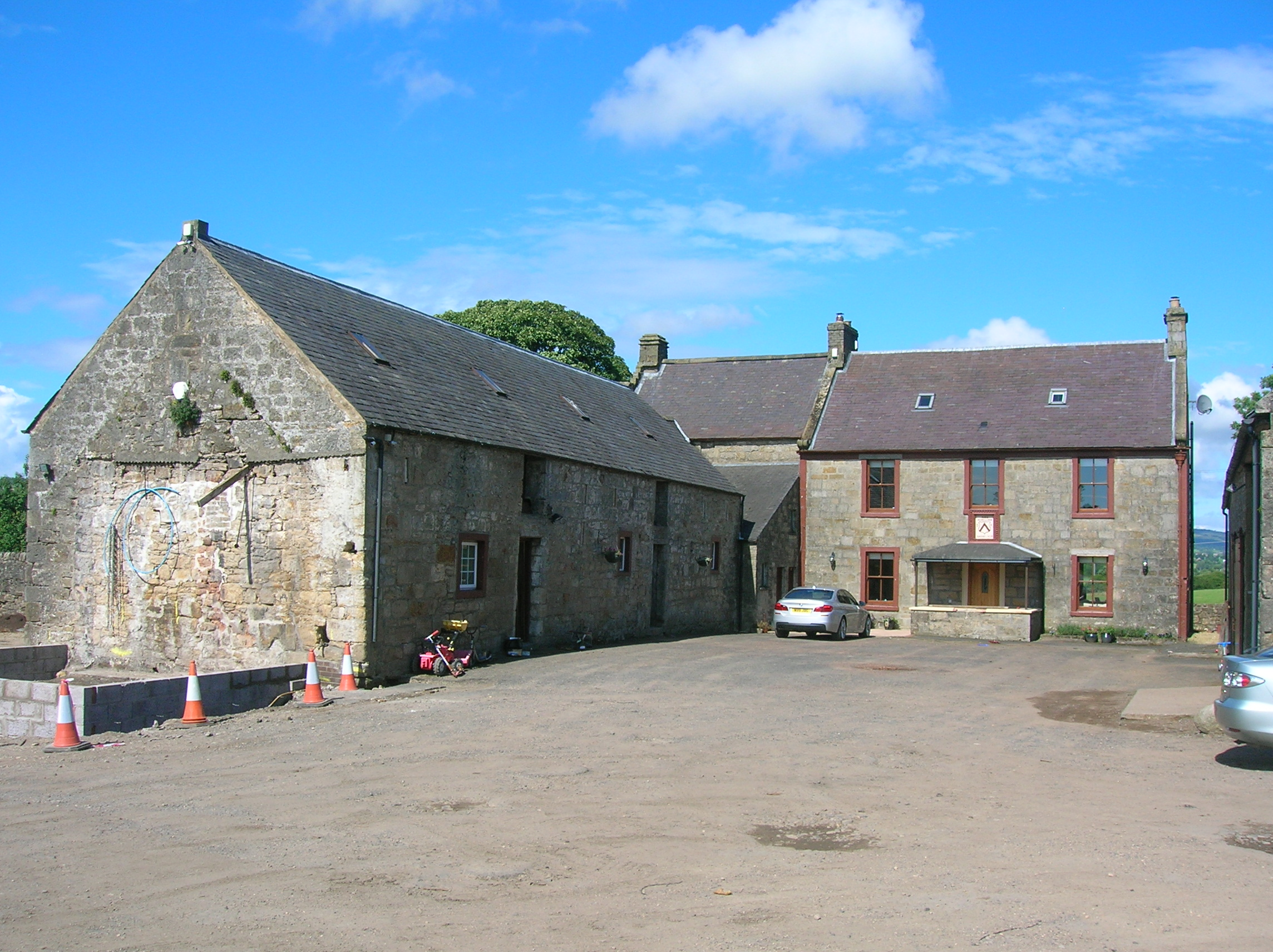 Kersland House/East Kersland Farm, Dalry, North Ayrshire, Scotland